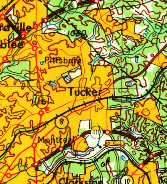 Portion of Atlanta, Georgia, Alabama United States Geological Survey 1964 revision of United States Army Corps of Engineers 1953 map.